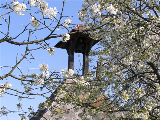 The Belfry of Ritkaháza (Kétvölgy) stand in 1865